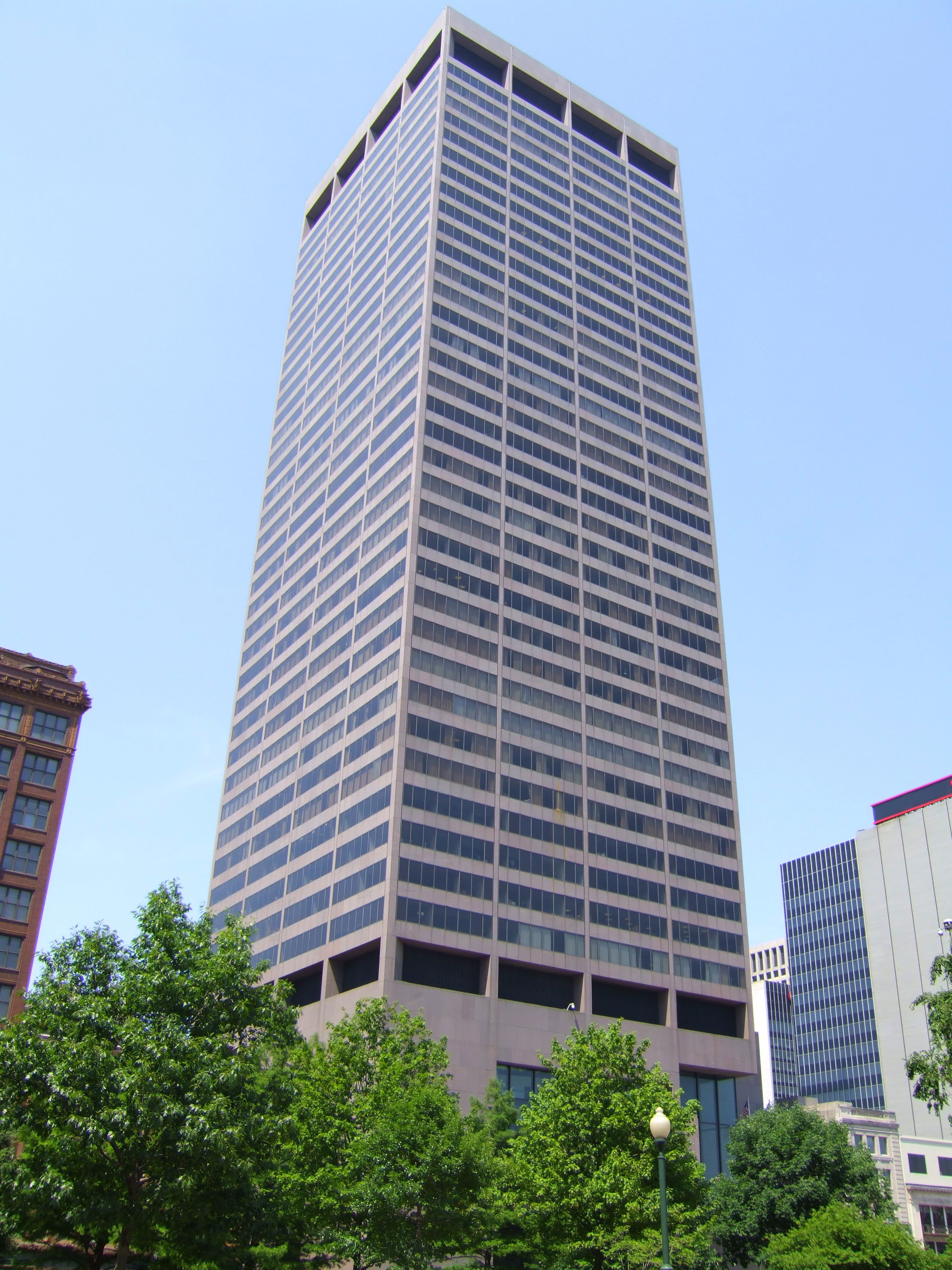 The James A. Rhodes State Office Tower located in Downtown Columbus, Ohio, USA.